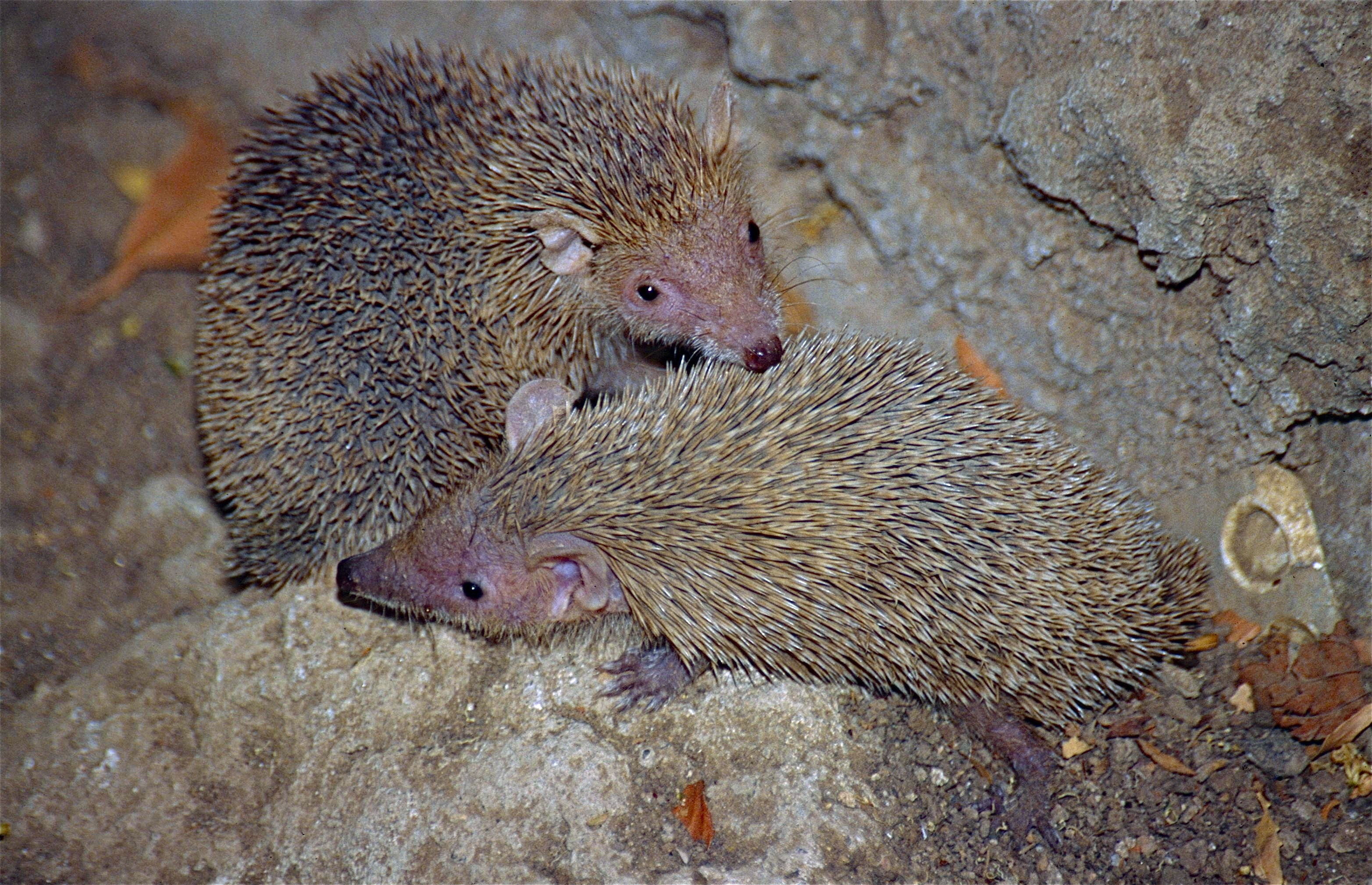 Toliara, MADAGASCAR Scanned Slide from 1998